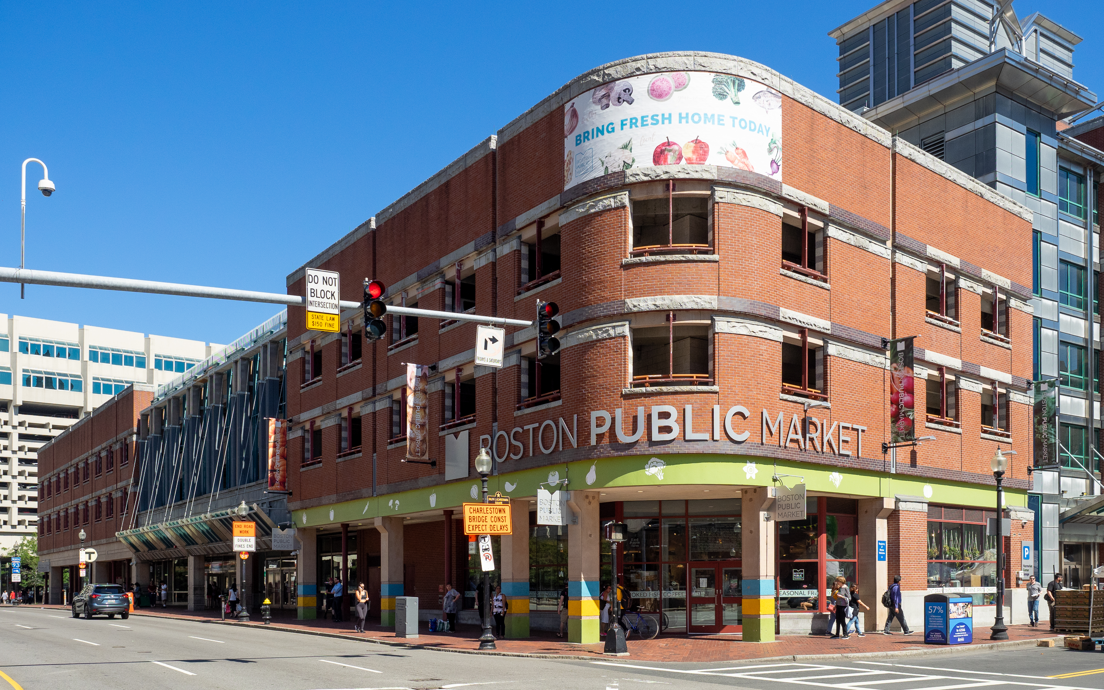 Boston, MA